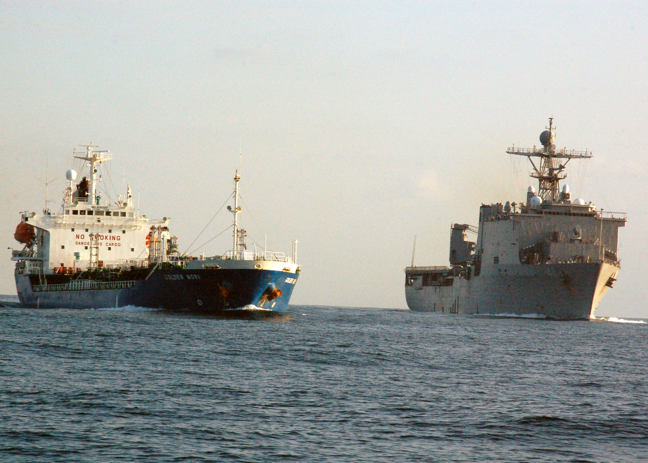 GULF OF ADEN (Dec. 15, 2007) Merchant vessel Golden Nori transits under the escort of the dock landing ship USS Whidbey Island (LSD 41) following its release from Somalia-based pirates Dec. 12. Pirates seized the Panamanian-flagged vessel Oct. 28 and held the 23-man crew hostage in Somali territorial waters. The release marks the first time in more than a year that no ships are held by Somali pirates. Whidbey Island is deployed to the U.S. Navy 5th Fleet area of responsibility in support of maritime security operations. U.S. Navy photo by Lt.j.g. Joe Donahue (Released)